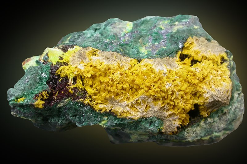 Schoepite, Rutherfordine Locality: Musonoi Mine, Kolwezi, Western area, Katanga Copper Crescent, Katanga (Shaba), Democratic Republic of Congo (Zaïre) (Locality at ) Size: 4.5 x 2.4 x 2.7 cm. A very good example of this classic mineral from the Musonoi Mine. Most specimens are TN’s but this is a larger size. Note the nicely formed crystals where the inner core of Rutherfordine can still be seen. This specimen was recovered during the removal of the U-dump in the early 1990’s. Musonoi has ceased producing minerals since then. Nothing has come out of Katanga for more than 15 years, except for Malachite and Chrysocolla.